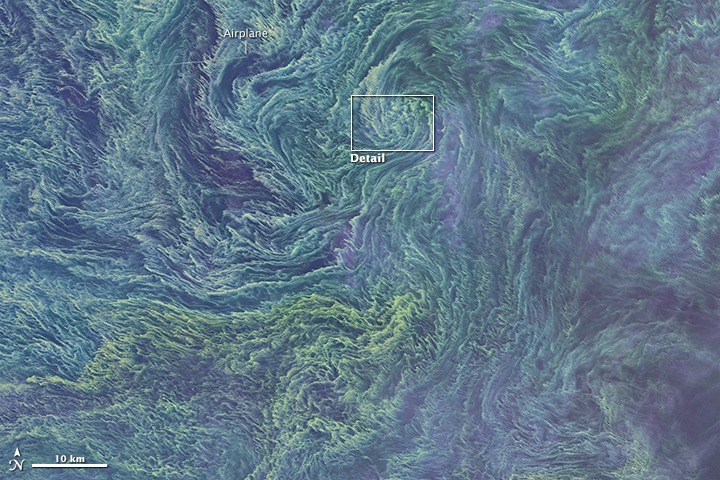 On August 11, 2015, the Operational Land Imager (OLI) on August 11, 2015, Landsat 8 captured this false-color view of what appears to be a large bloom of cyanobacteria swirling in the Baltic Sea. The image was composed from bands 4 (640-670 nanometers), 3 (530-590 nanometers), and 2 (450-510 nanometers) for the red, green, and blue components of the image, respectively. Band 8 (500-680 nanometers) was used to sharpen the image.